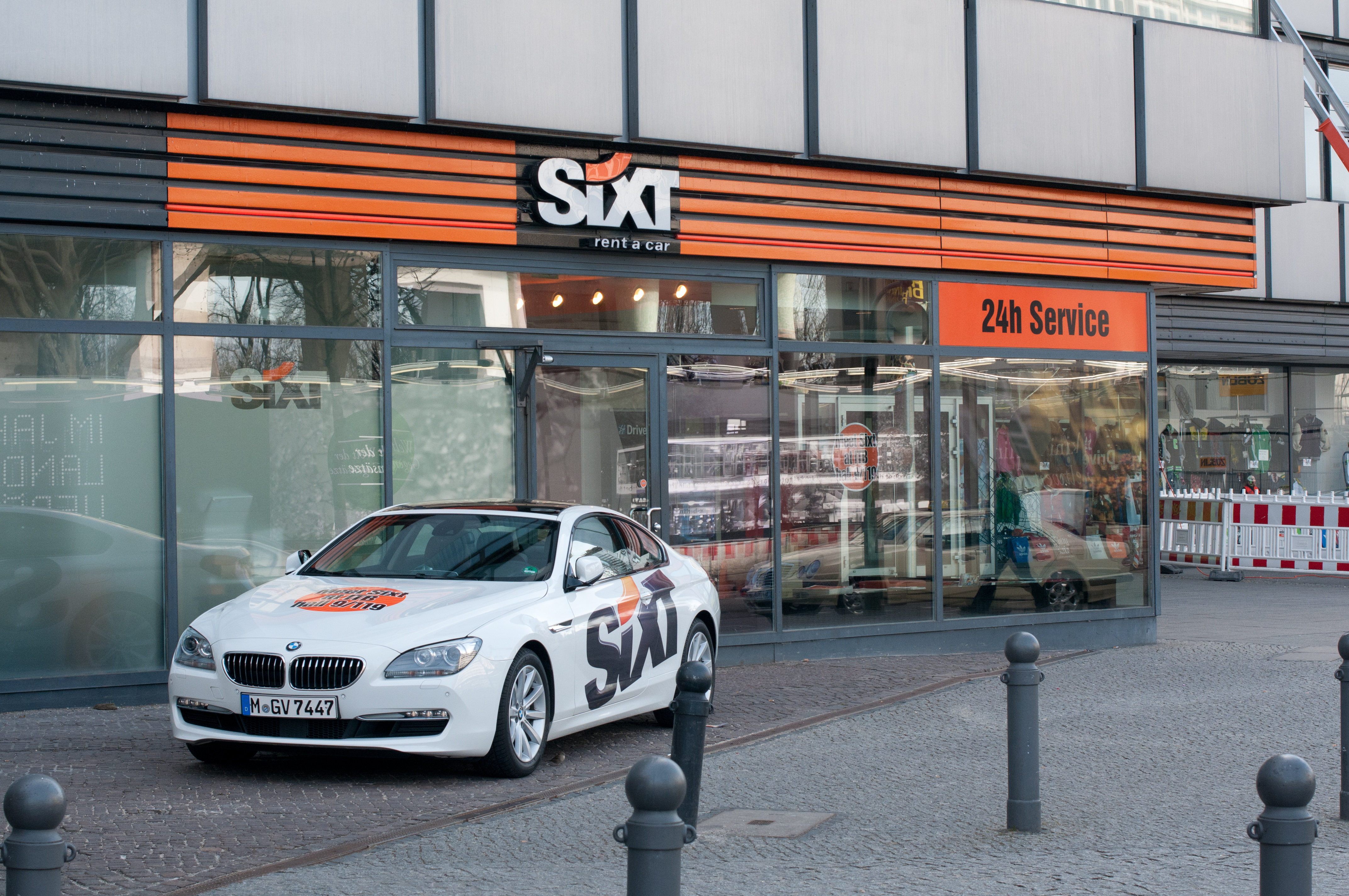 Sixt at Europacenter Berlin This file is used in a Wikiversity project or course. Please don't change it before you inform the author.